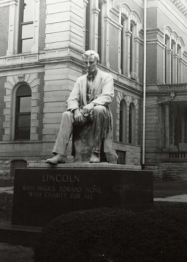 This is likely a 1992 image of the Lincoln Monument of Wabash, Indiana by Charles Keck. The view is looking to the south west.